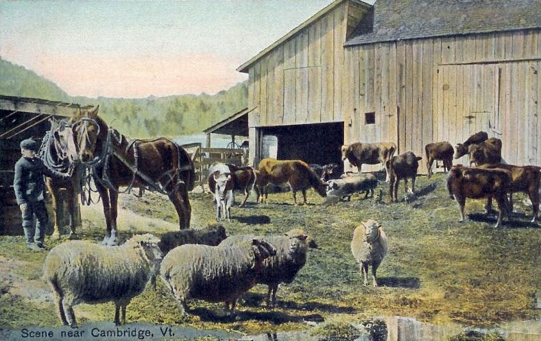 Scene near Cambridge, Vermont